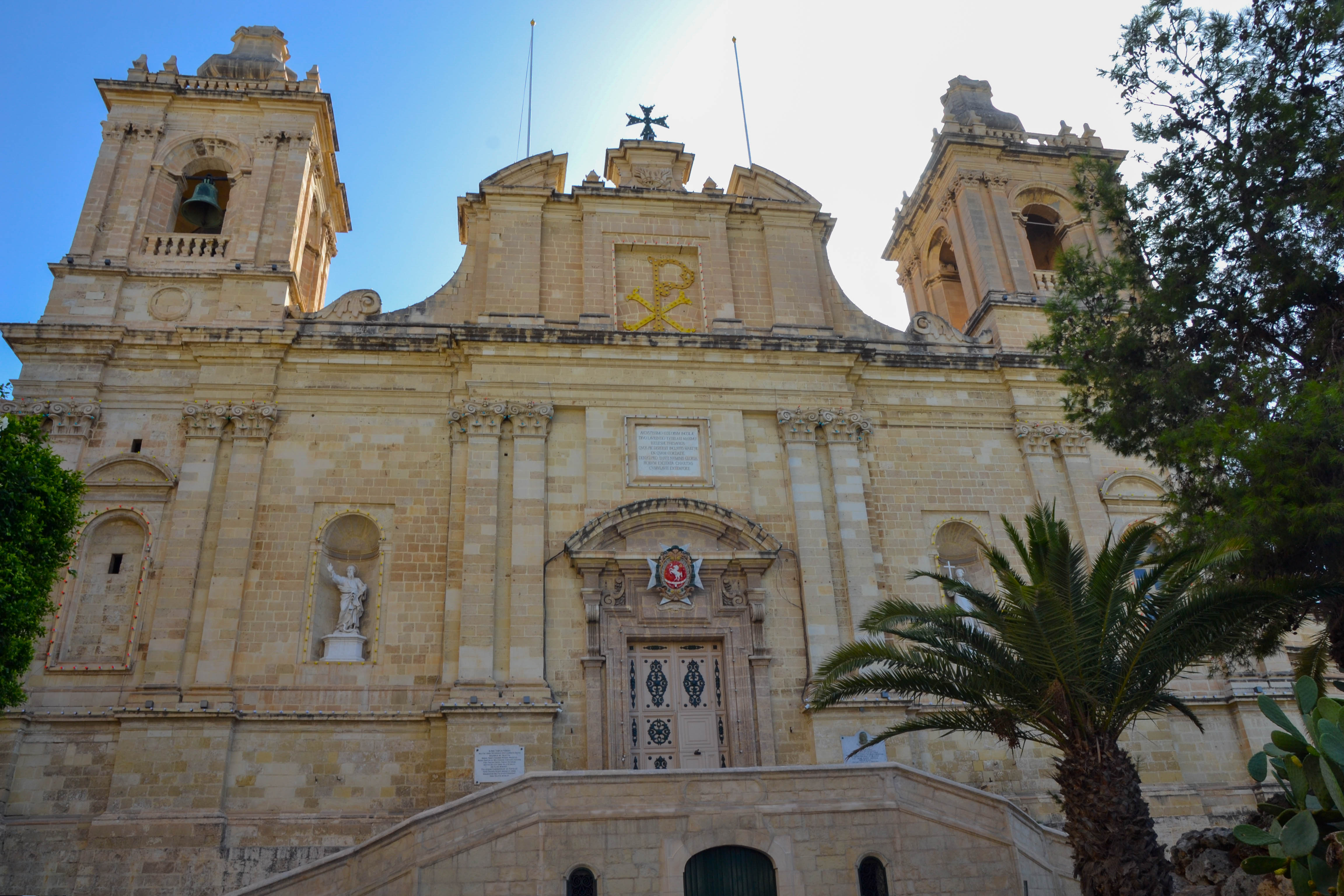 This media is about Maltese cultural property with inventory number 00714.